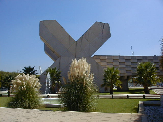 Access to the Pavilion of Mexico in Expo'92 Seville.